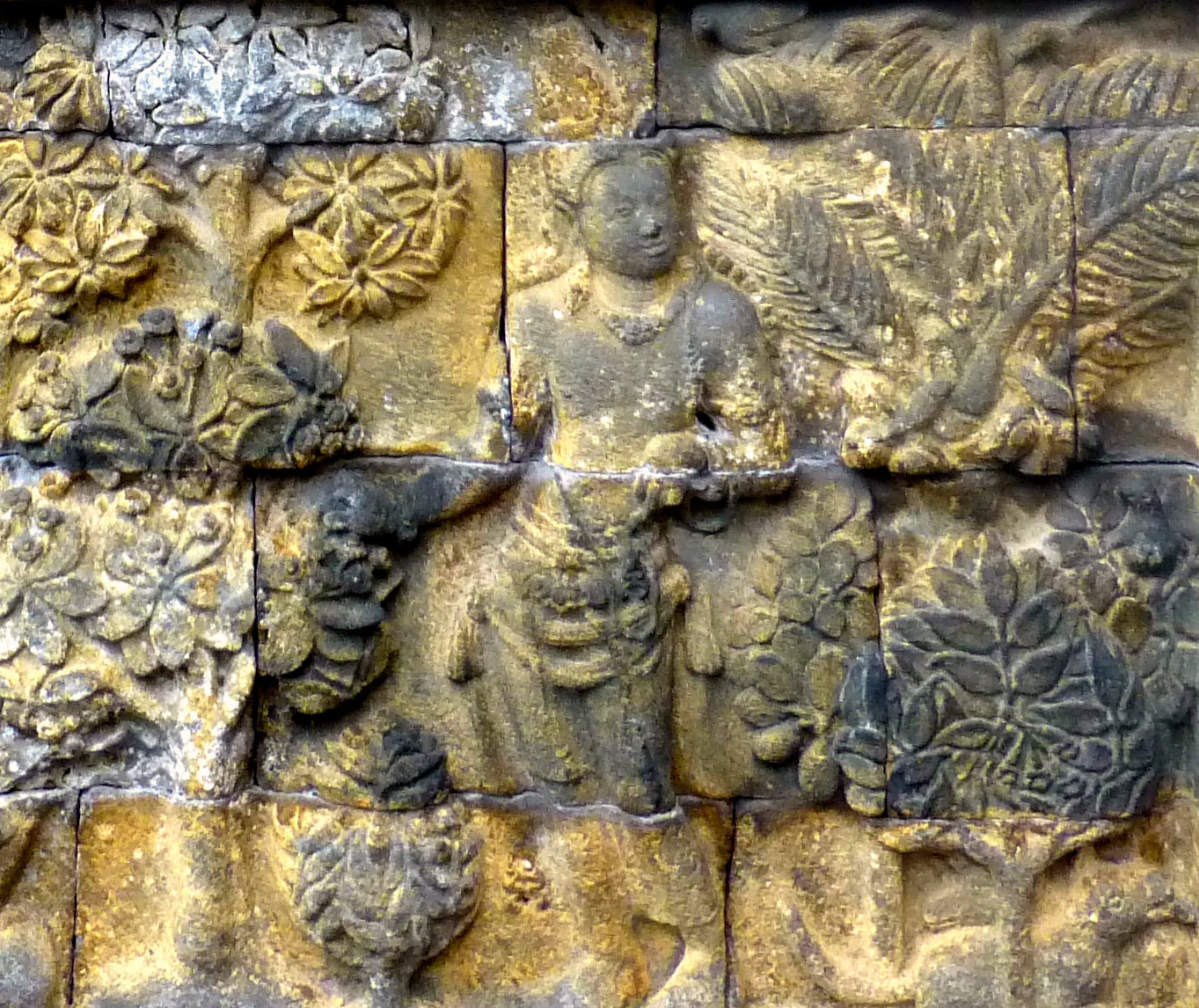 110 E, Maitrakanyaka meets with sixteen Nymphs at Borobudur Photograph of a Divyavadana relief at Borobudur in Java, Indonesia taken by Anandajoti.